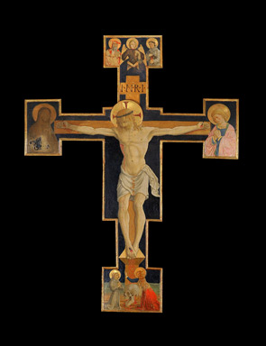 Painted Crucifix, from the church of San Michele Arcangelo, c. 1460–70. Bartolomeo Caporali, Tempera and gold on wood; 242.5 x 169 cm.